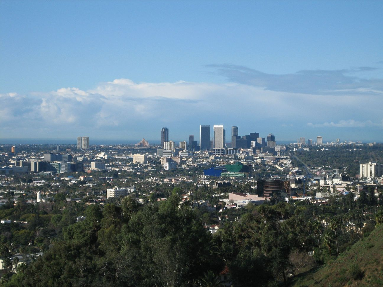 Westside of Los Angeles — seen from Runyon Canyon Park in Los Angeles. With the skyline of the Century City neighborhood in LA. Credits Photo taken by Alex Shkirenko.